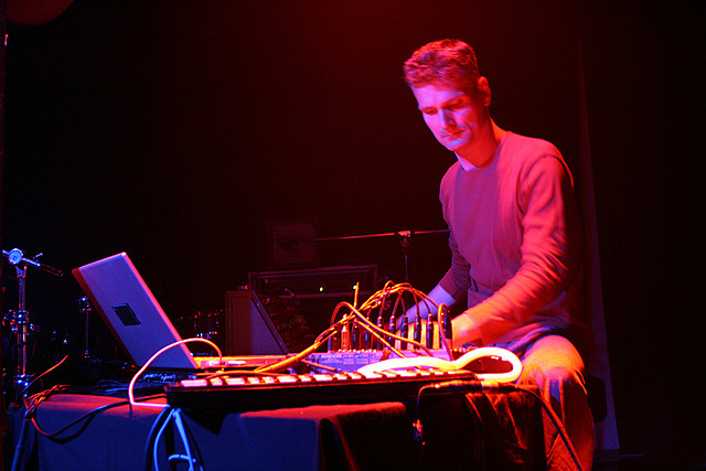 Burnt Friedman during a live performance at Festival Pomladi at Ljubljana in 2008.